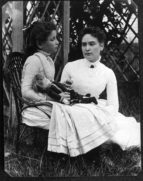 Photograph of Helen Keller at age 8 with her tutor Anne Sullivan on vacation in Brewster, Cape Cod, Massachusetts